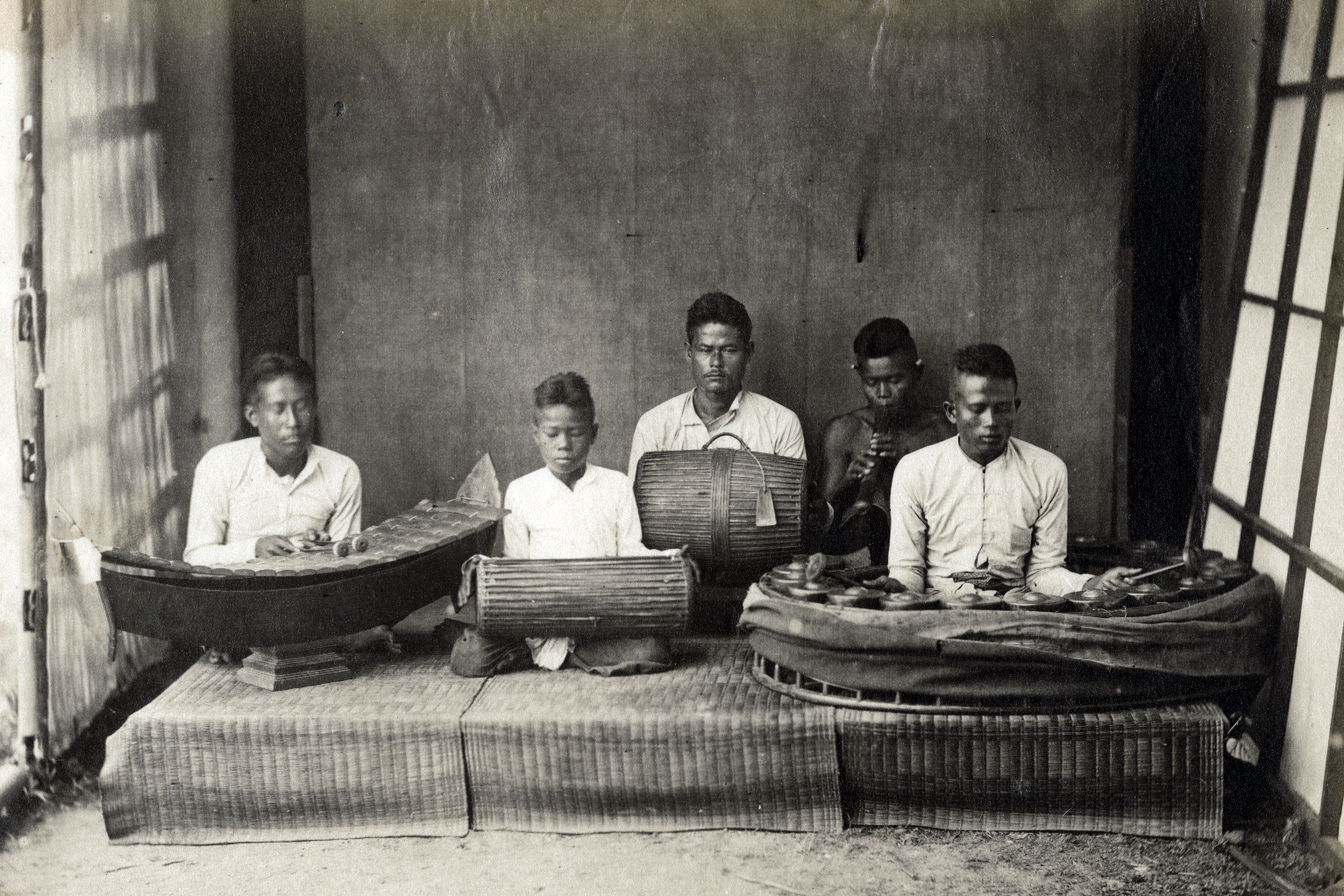 Siamese orchestra, 1900